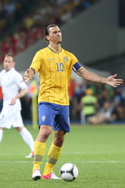 Zlatan Ibrahimović at the Euro 2012 match against France